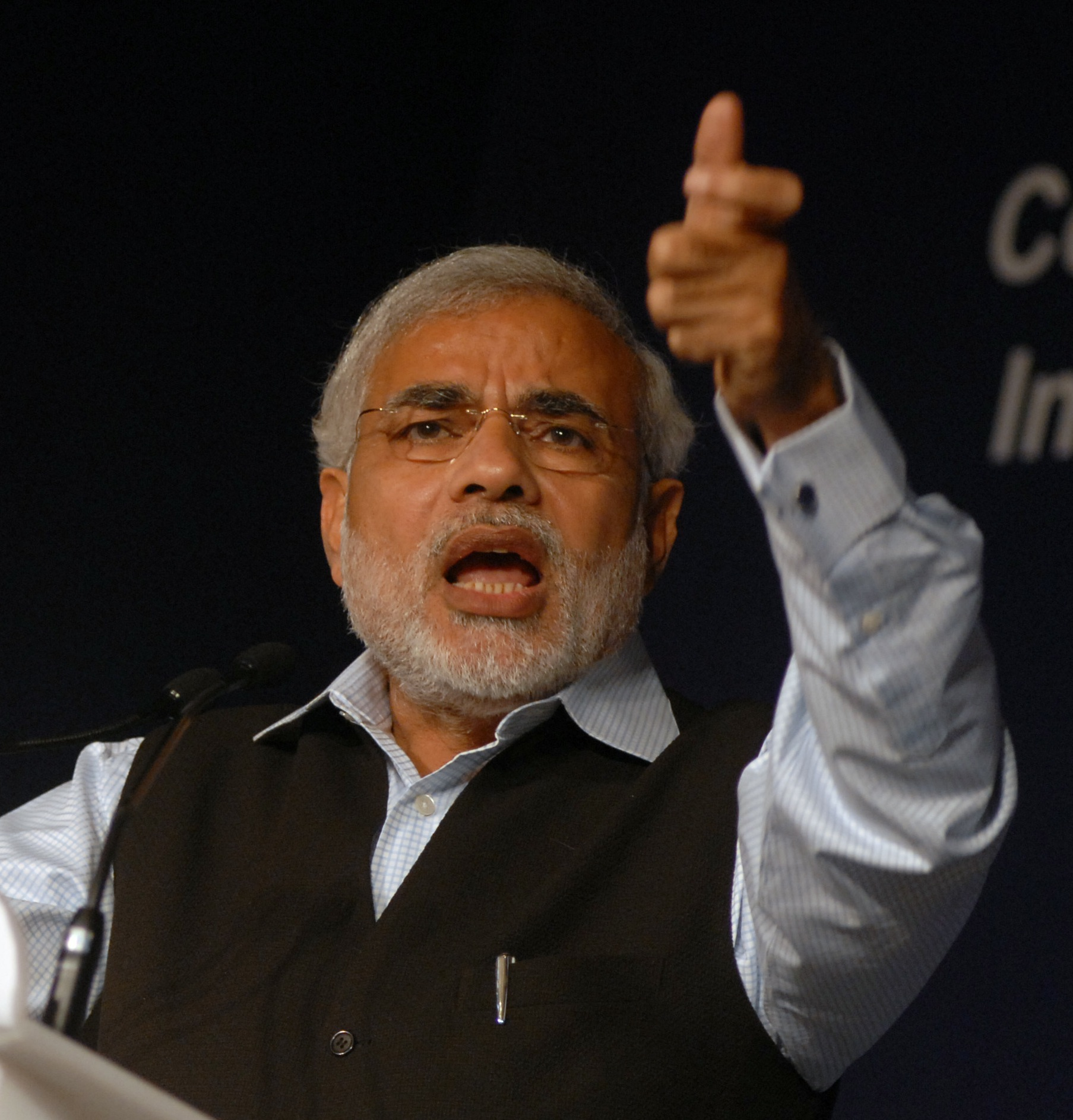 Image of Narendra Modi at the World Economic Forum in India